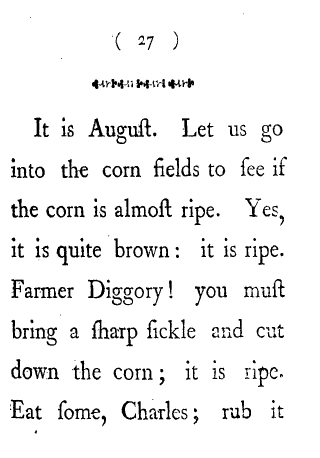 Page 27 from Barbauld's Lessons for children of three years old, part 1